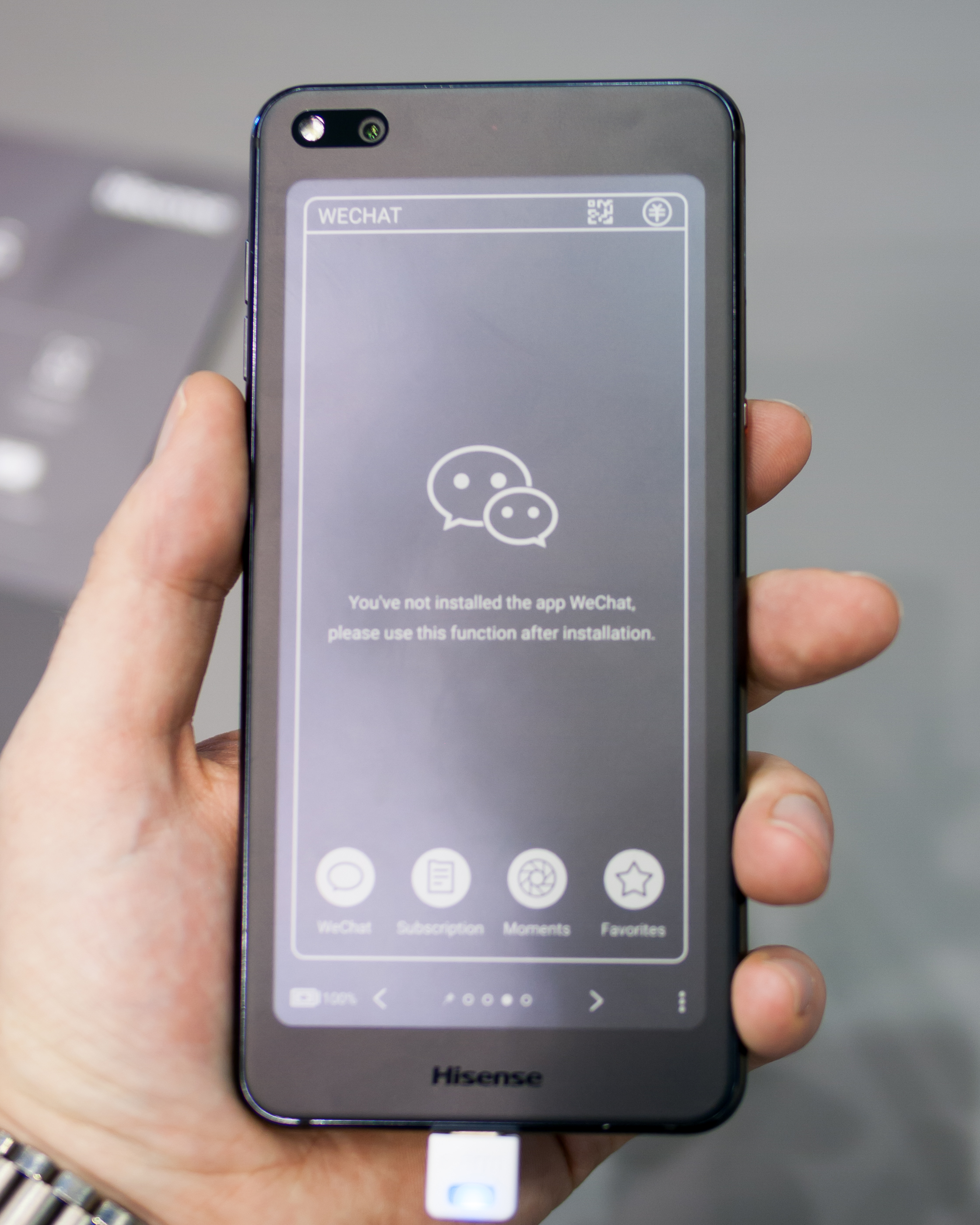 Hisense, Internationale Funkausstellung 2018, Berlin